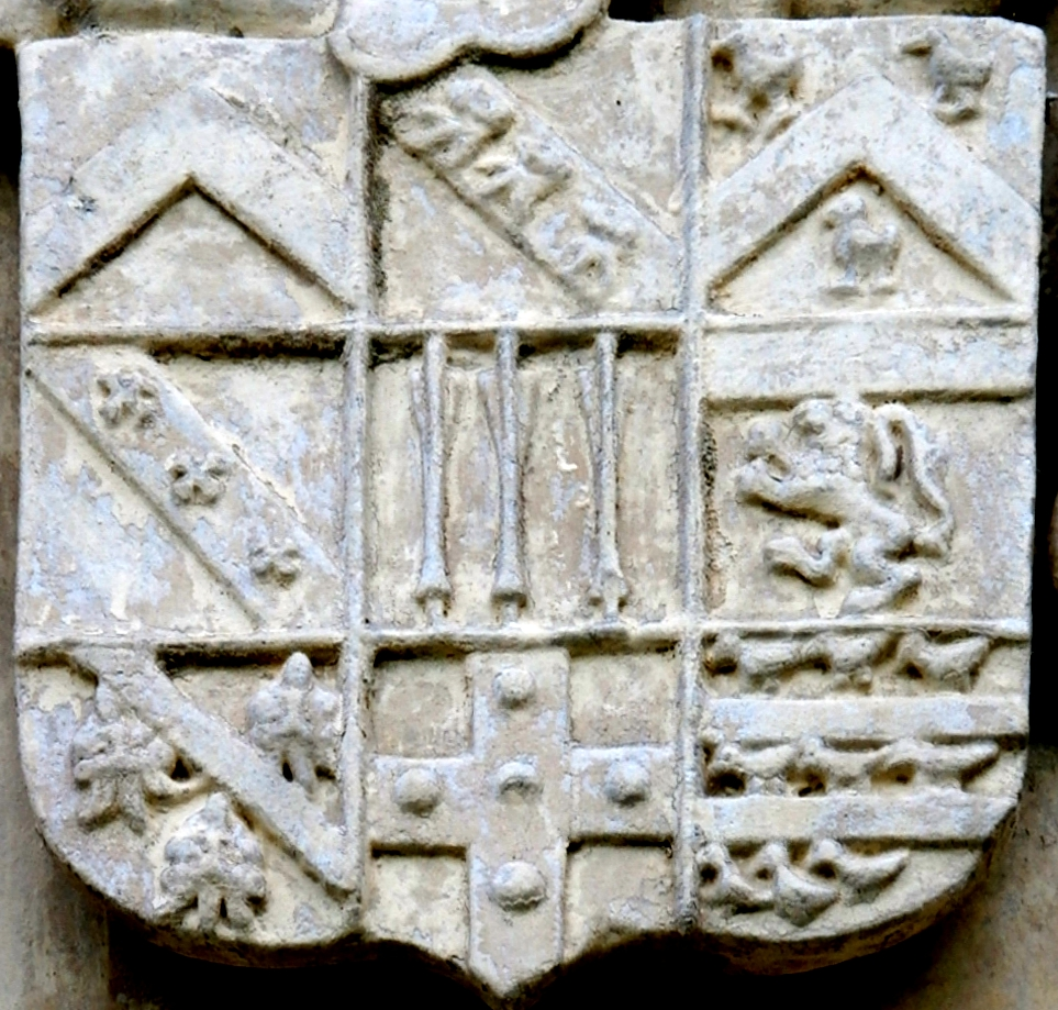 16th century relief-sculpted stone escutcheon of 9 quarters over main entrance to courtyard of Great Fulford House, Dunsford, Devon. Arms per Burke's Genealogical and Heraldic History of the Landed Gentry, 15th Edition, ed. Pirie-Gordon, H., London, 1937, p.848, pedigree of Fulford of Fulford, and as depicted on the monument to Sir Thomas Fulford (died 1610) and in the 19th century stained glass east window in the Fulford Chapel of Dunsford Church: 1: Gules, a chevron argent (Fulford) 2: Argent, on a bend sable three bear's heads and necks erased of the first (FitzUrse) 3: Argent, a chevron between three cockrels sable (Moreton) 4: Or, on a bend gules three crosses moline argent (Belston) 5: Azure, three bird-bolts palewise points in base argent (Bozom of Bozom's Hele) 6: Argent, a lion rampant gules a chief azure (St George of Dittisham; see also arms of St George Baronets) 7: Gules, three leopard's faces or jessant-de-lys azure over all a bend engrailed azure (Denys of Glamorgan and of Siston, Gloucestershire) 8: Ermine, on a cross gules five bezants (St Aubyn of Combe Raleigh) 9: Gules, two bars between nine martlets argent 3, 3, 3 (Challons (of Legh Challons?))